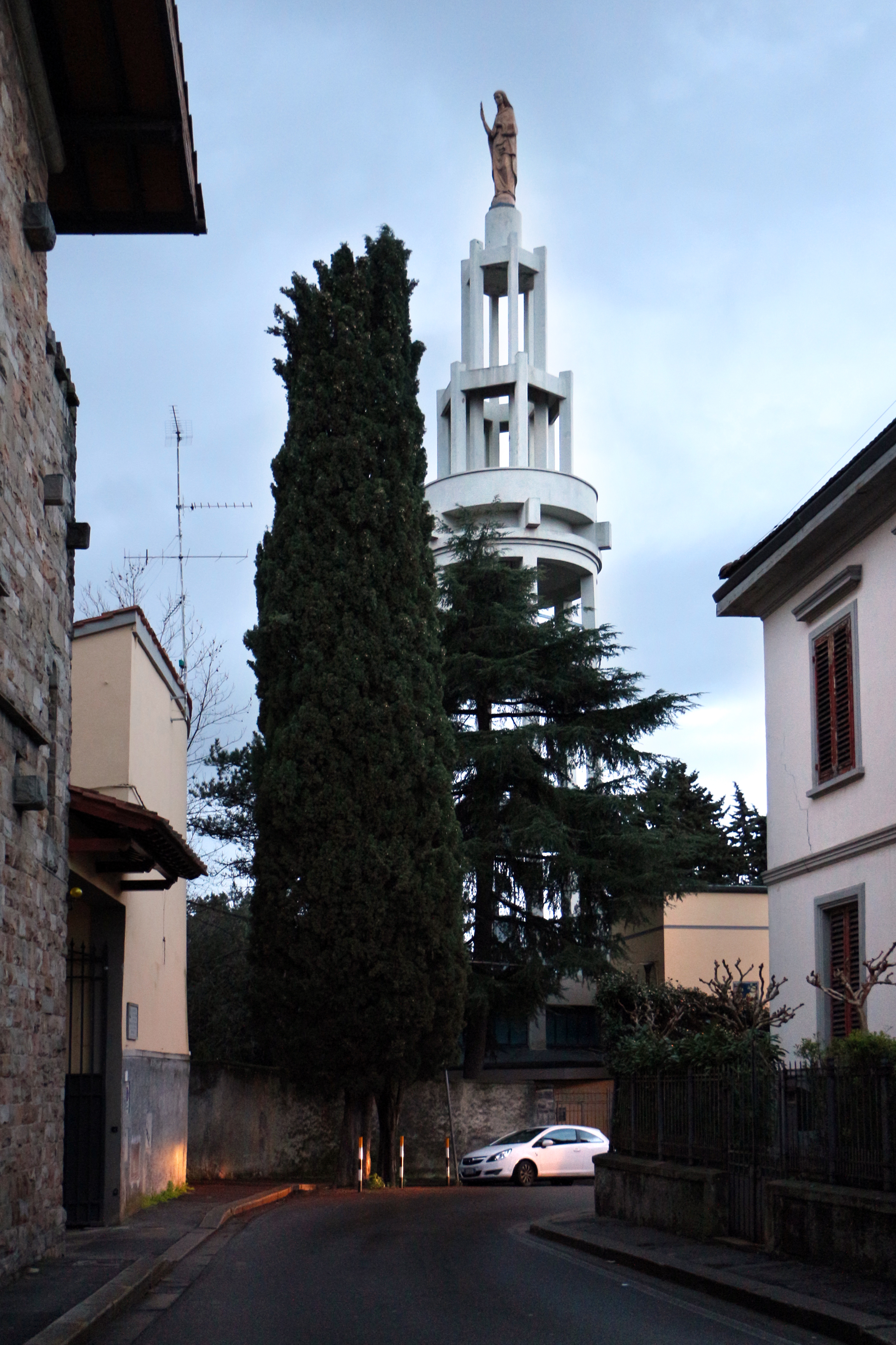 Casa della Gioventù Francescana (Florence)